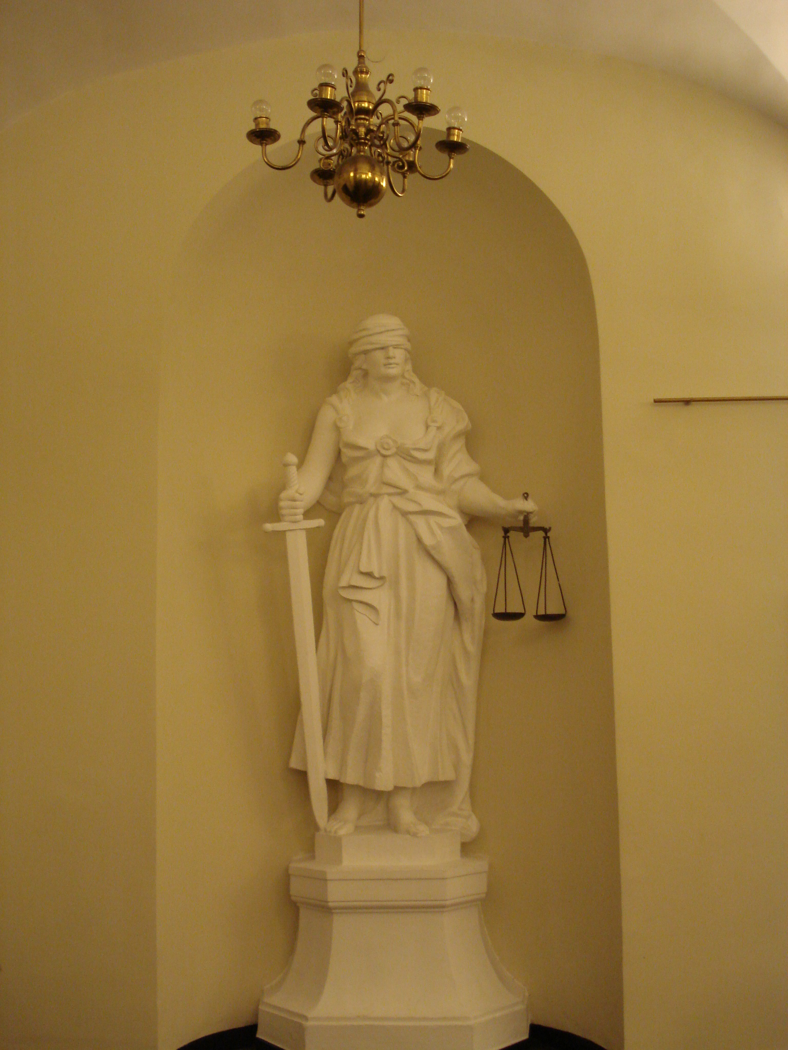 The statue of Themis on the first floor in the Vilnius Town hall